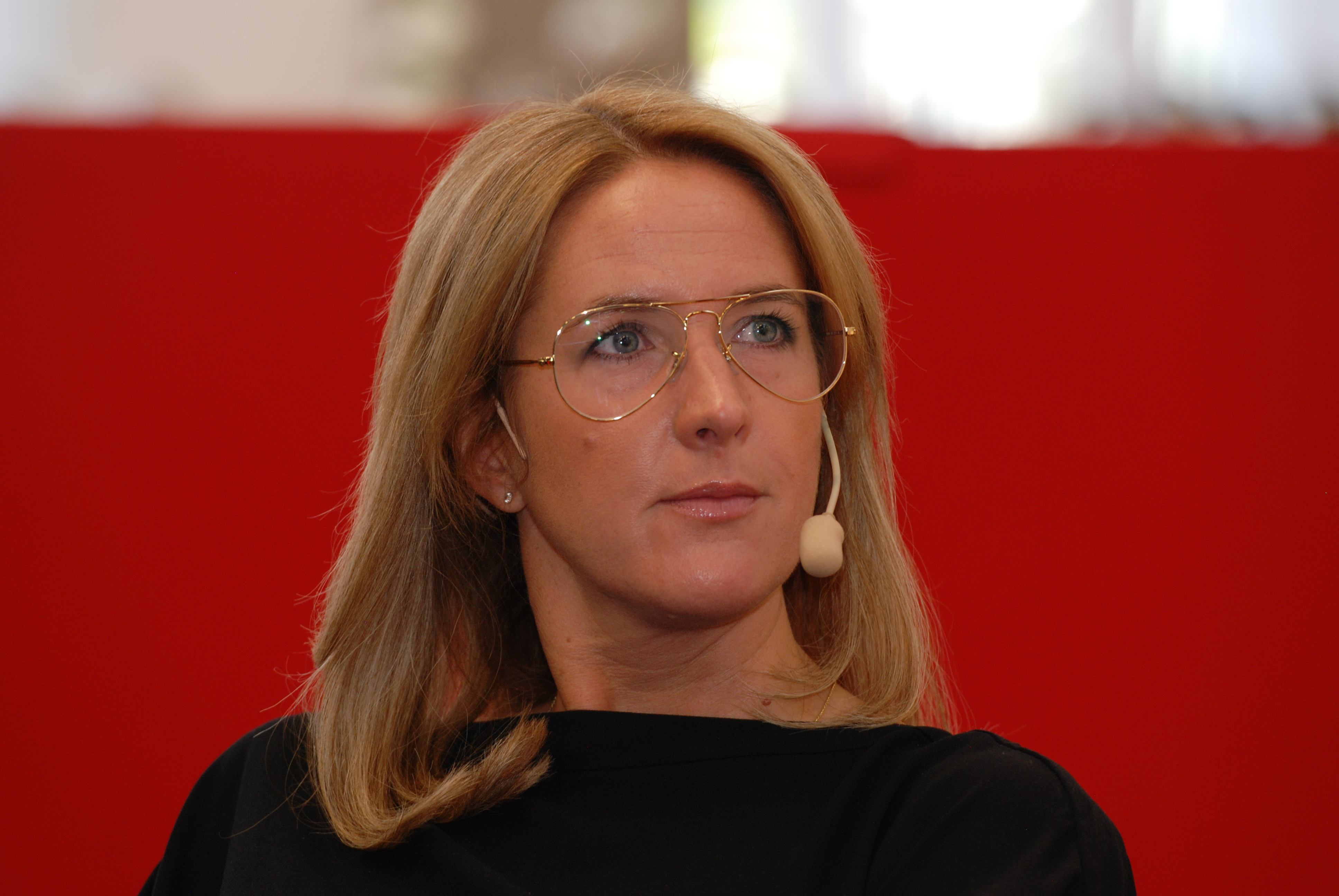 The Swedish writer Denise Rudberg at Göteborg Book Fair 2013.